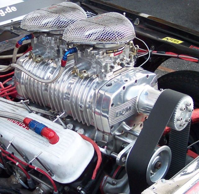 Roots blower / Kompressor